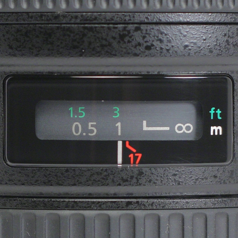 Distance scale window of an Canon EF lens, also showing the infrared index. Lens that was used as subject, is the Canon EF 17-40mm f/4L USM.